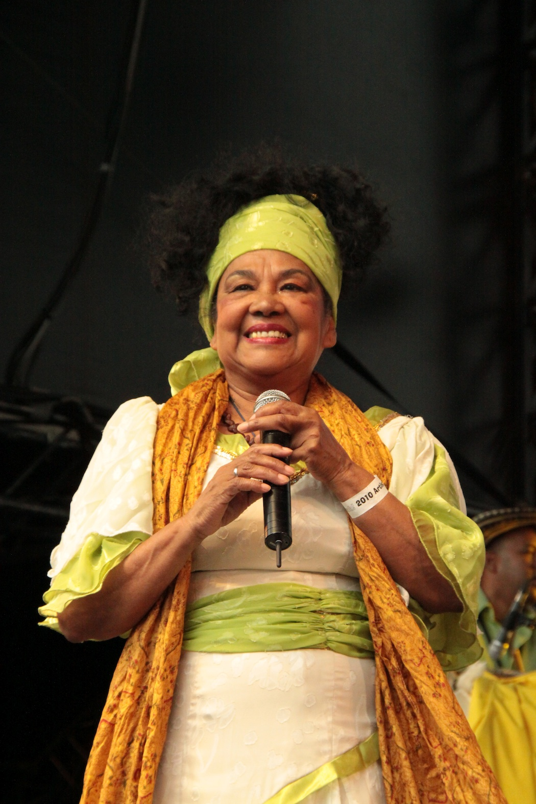 Totó la Momposina’s entire life has been dedicated to representing the music of Colombia’s Caribbean coastline. As a singer, dancer and teacher she embodies that fertile place where Colombia’s African, Indigenous Indian and Spanish cultures mingle to create a unique musical tradition.